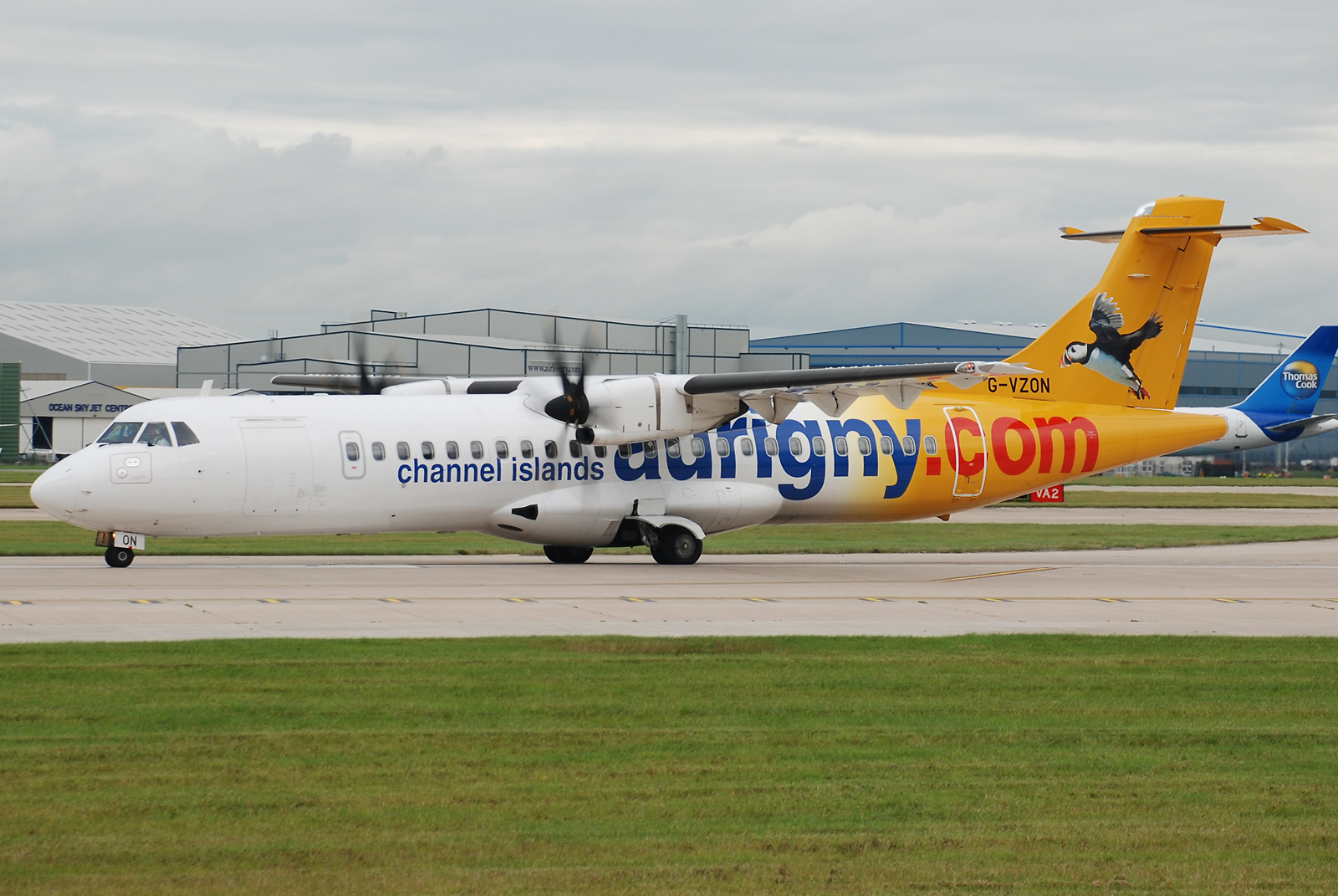 AUR [GR] Aurigny Air Services ATR 72-212A EGCC